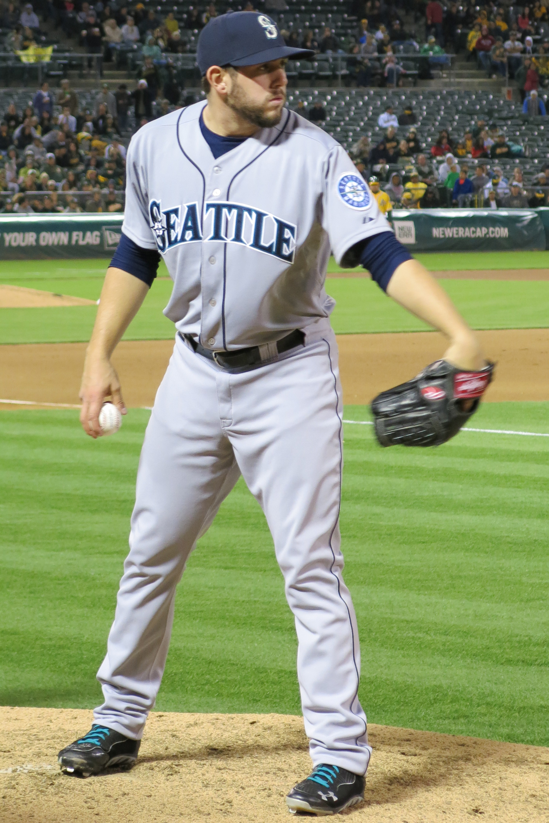 Seattle Mariners relief pitcher Dominic Leone warms up in the bullpen in a game against the Athletics in Oakland, California.